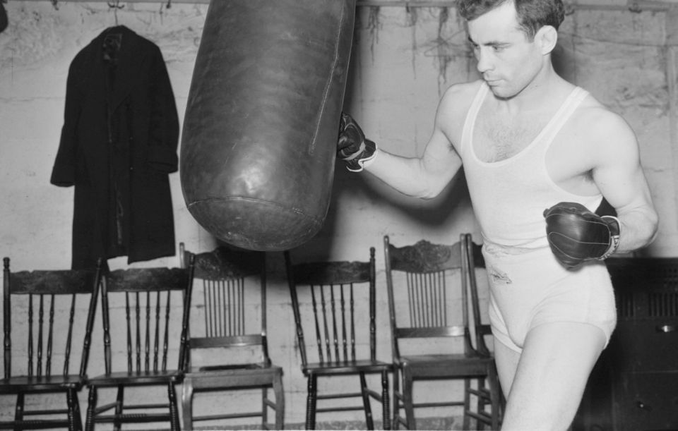 Dave Castilloux boxer hits a punching bag during training.